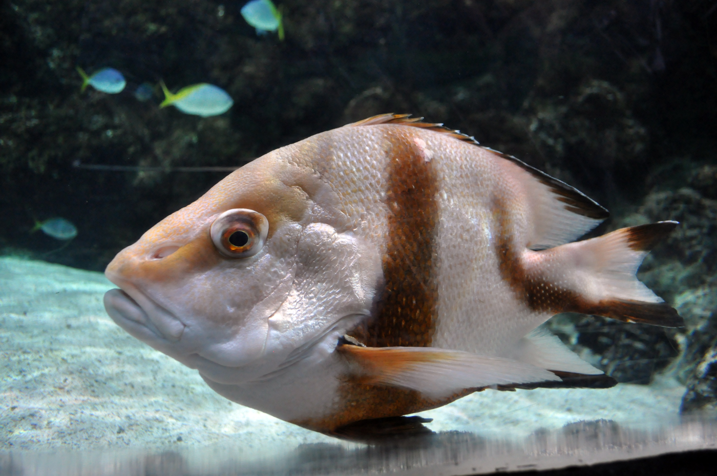 Lutjanus sebae